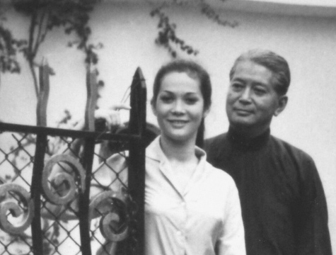 Nancy Kwan as a teenager at home with her father, Kwan Wing Hong